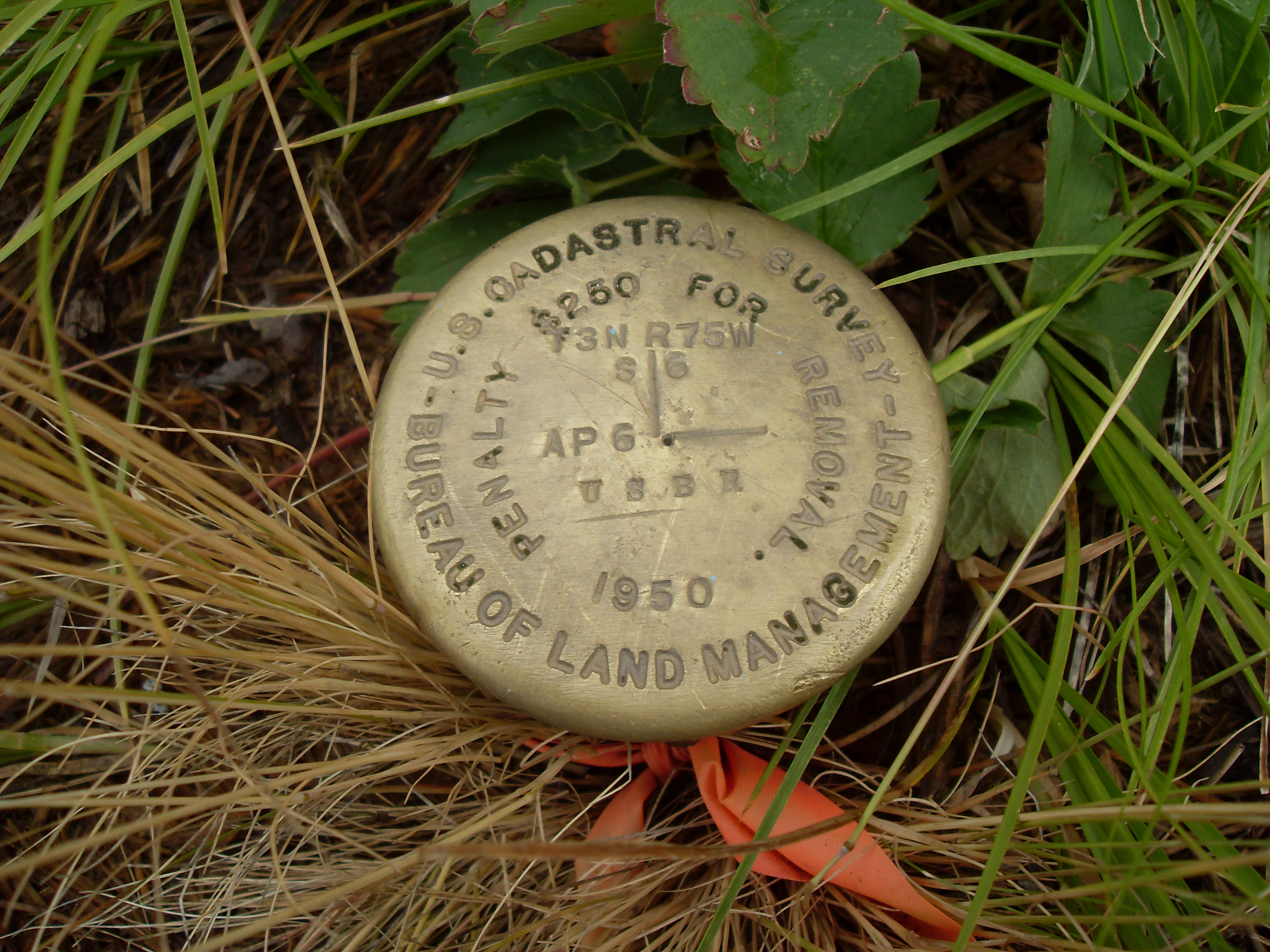 BLM Geodetic control point from 1950 in Colorado